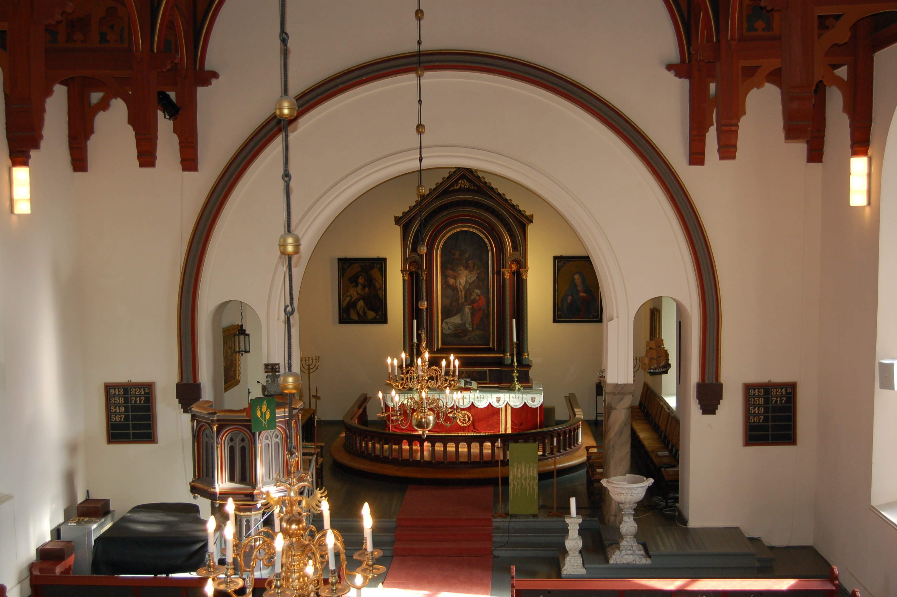 Inside Larvik church, Norway